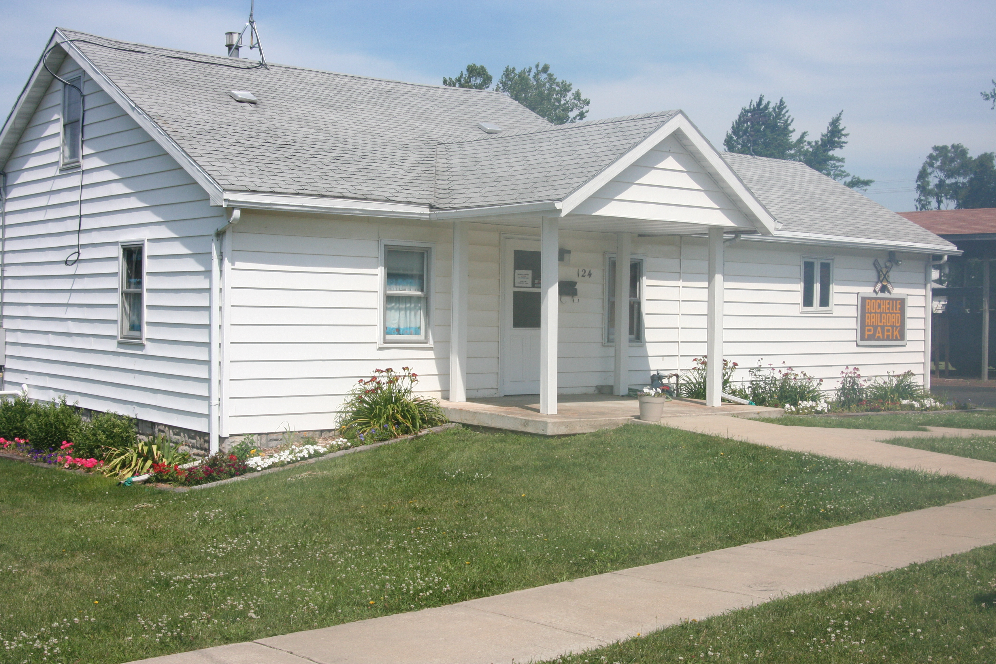 The Rail Museum at the Rochelle Railroad Park in Rochelle, Illinois, Illinois.